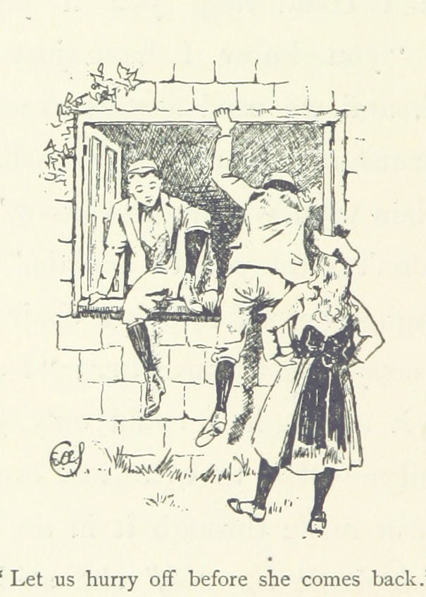 Image taken from: Title: "Clear as the Noon Day. [A tale.] ... Illustrated" Author: PENROSE, Ethel. Shelfmark: "British Library HMNTS 012630.ee.55." Page: 52 Place of Publishing: London Date of Publishing: 1893 Publisher: Jarrold & Sons Issuance: monographic Identifier: 002817228 Explore: Find this item in the British Library catalogue, 'Explore'. Download the PDF for this book (volume: 0) Image found on book scan 52 (NB not necessarily a page number) Download the OCR-derived text for this volume: (plain text) or (json) Click here to see all the illustrations in this book and click here to browse other illustrations published in books in the same year. Order a higher quality version from here.